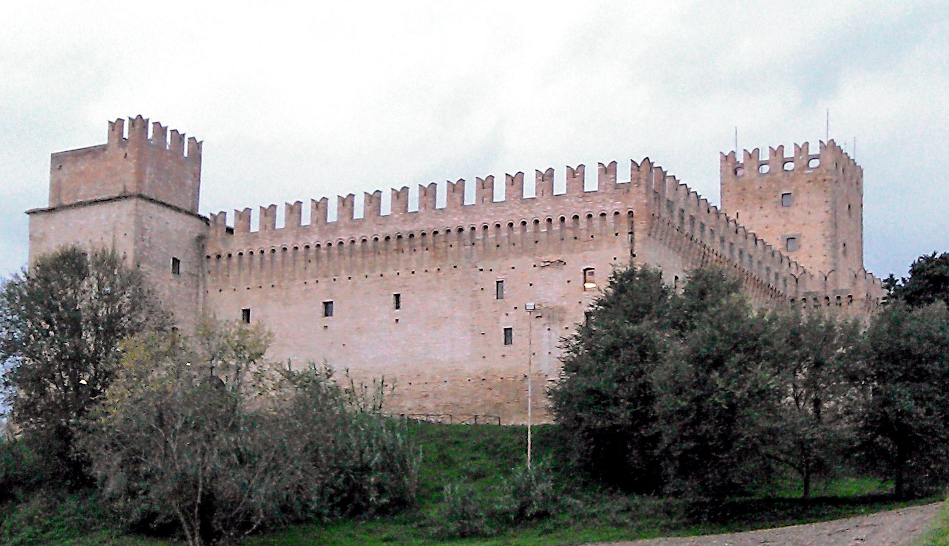 In this photo you can see the Rancia castle from outside